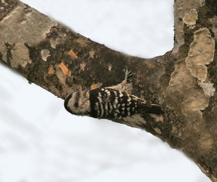 Grey-capped Pygmy Woodpecker Dendrocopos canicapillus at Jayanti in Buxa Tiger Reserve in Jalpaiguri district of West Bengal, India.